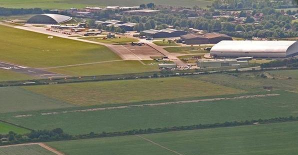 Imperial War Museum Duxford, seen from a Dragon Rapide aircraft. Visible are the AirSpace and American Air Museum exhibition buildings, a number of historic hangars, the airfield's concrete runway and the M11 motorway.